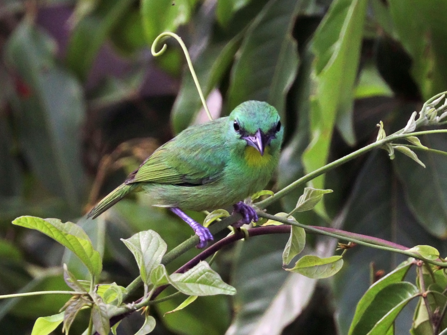 Green shrike-vireo (Vireolanius pulchellus), from Canopy Tower, Panama